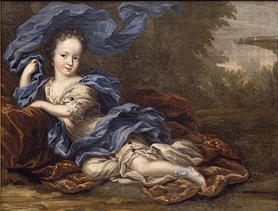 Potrait of Princess Hedvig Sofia as a child